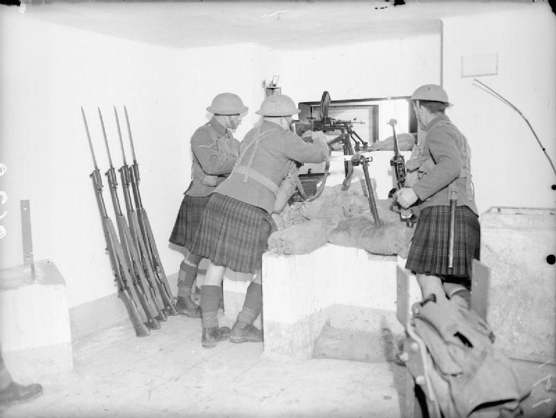 The British Army in France 1939-40 Men of the 1st Battalion Queen's Own Cameron Highlanders man a Bren gun inside a blockhouse at Aix, 12 November 1939.